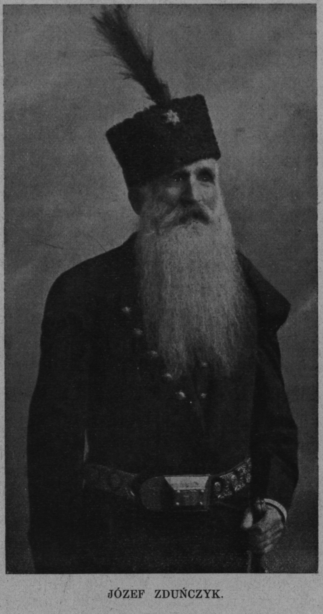 Józef Paulin Zduńczyk